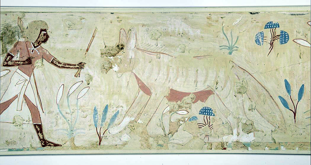 Facsimile, Amenemhab (TT 85), hyena